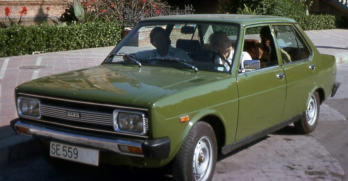 SEAT 131 at the Plaza de España in the Maria Luisa Park in Seville (1977)